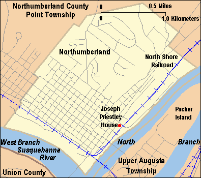 Map of location of the Joseph Priestley House in Northumberland, Pennsylvania, United States.